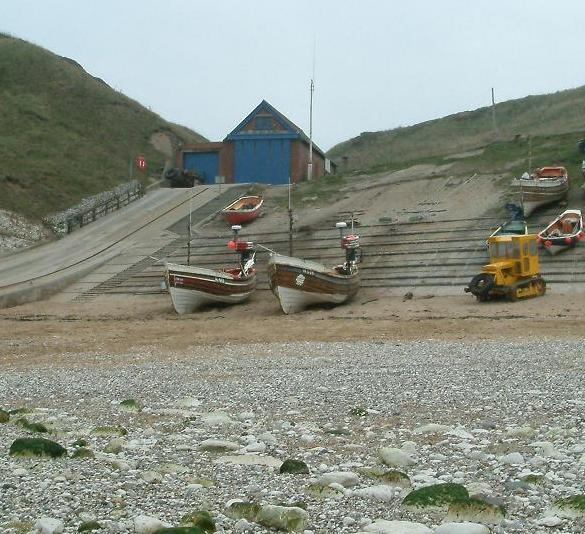 Three cobles at North Landing, Flamborough, East Riding of Yorkshire, England.